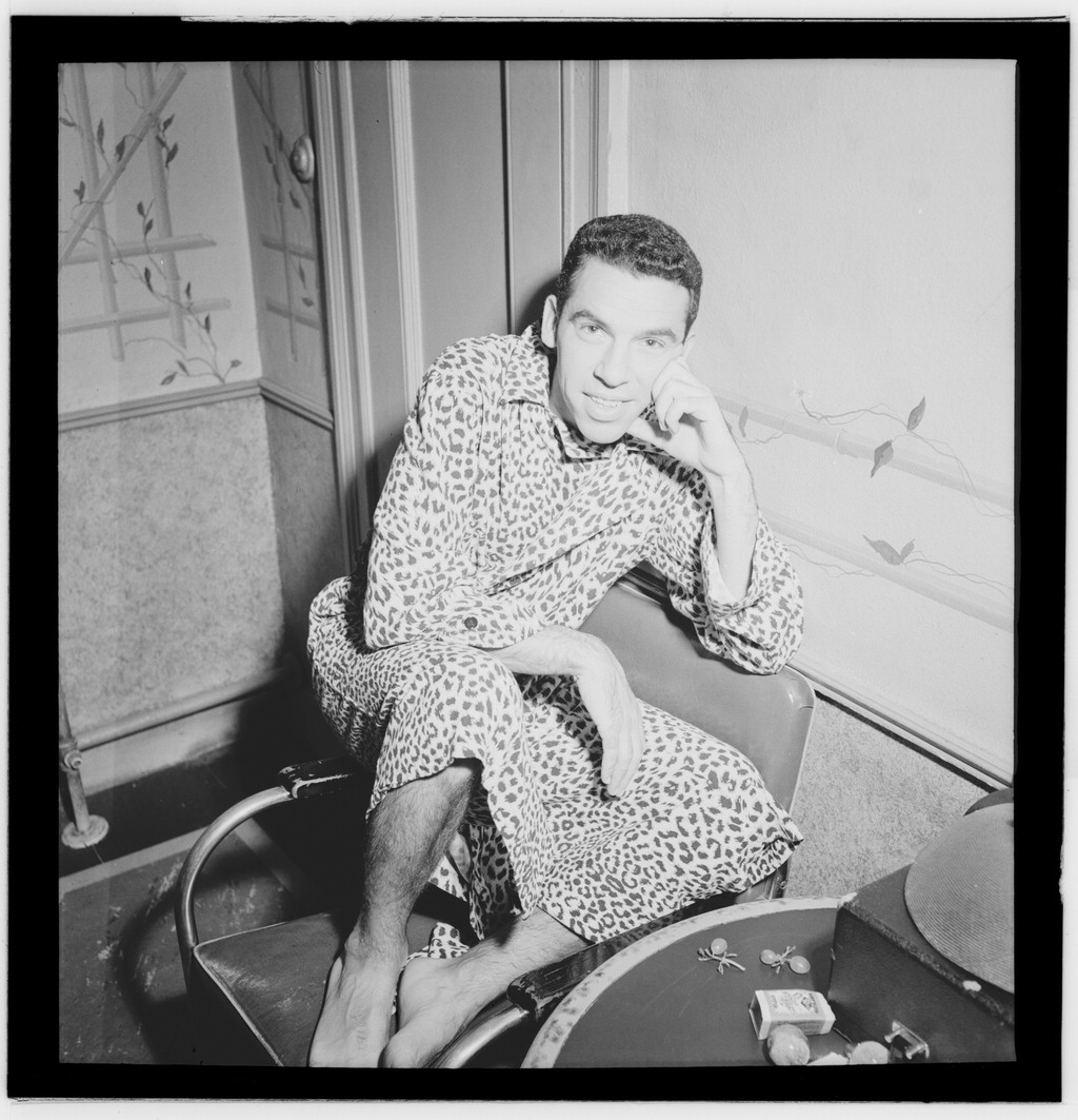 Buddy Rich